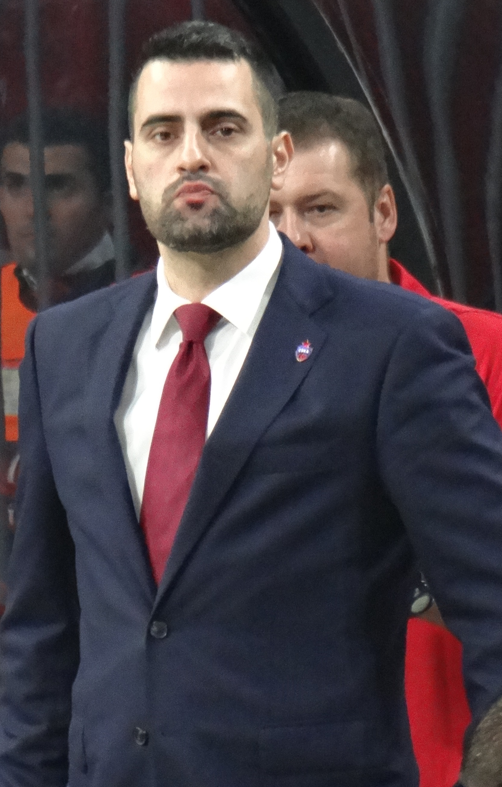 Anadolu Efes S.K. vs PBC CSKA Moscow EuroLeague 20171027